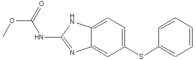 Fenbendazole, Methyl-5-(phenylthio)-2-benzimidazolcarbamat, Anthelmintic